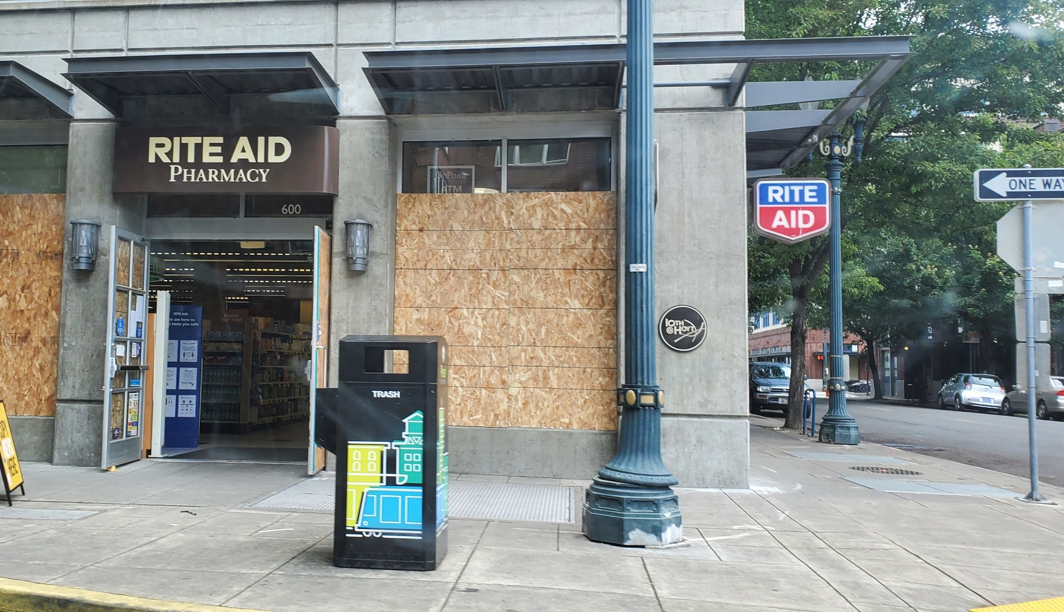 Boarded windows in Portland, Oregon, following George Floyd protests, 2020